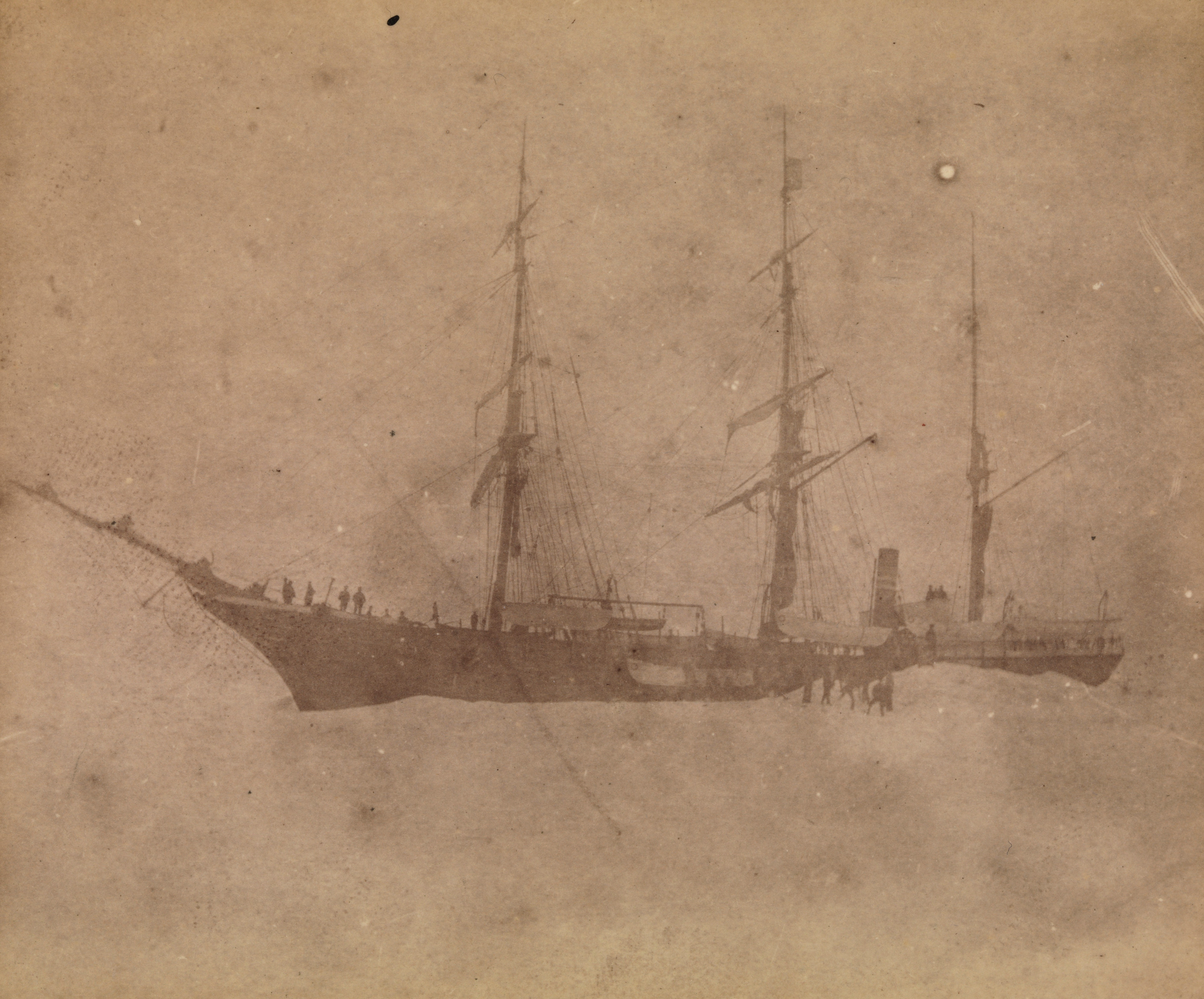 The seal hunting vessel «Jason» in the ice. The ship had the members of the Greenland expedition on board. They left the ship in boats on July 17, 1888 outside of Sermilik (on the east coast of Greenland). One of the pictures from the expedition to Greenland in the period July 1888 to May 1889. Fridtjof Nansen together with 5 other Norwegian participants crossed Greenland in the course of a 42-day skiing trip from the east to the west coast.